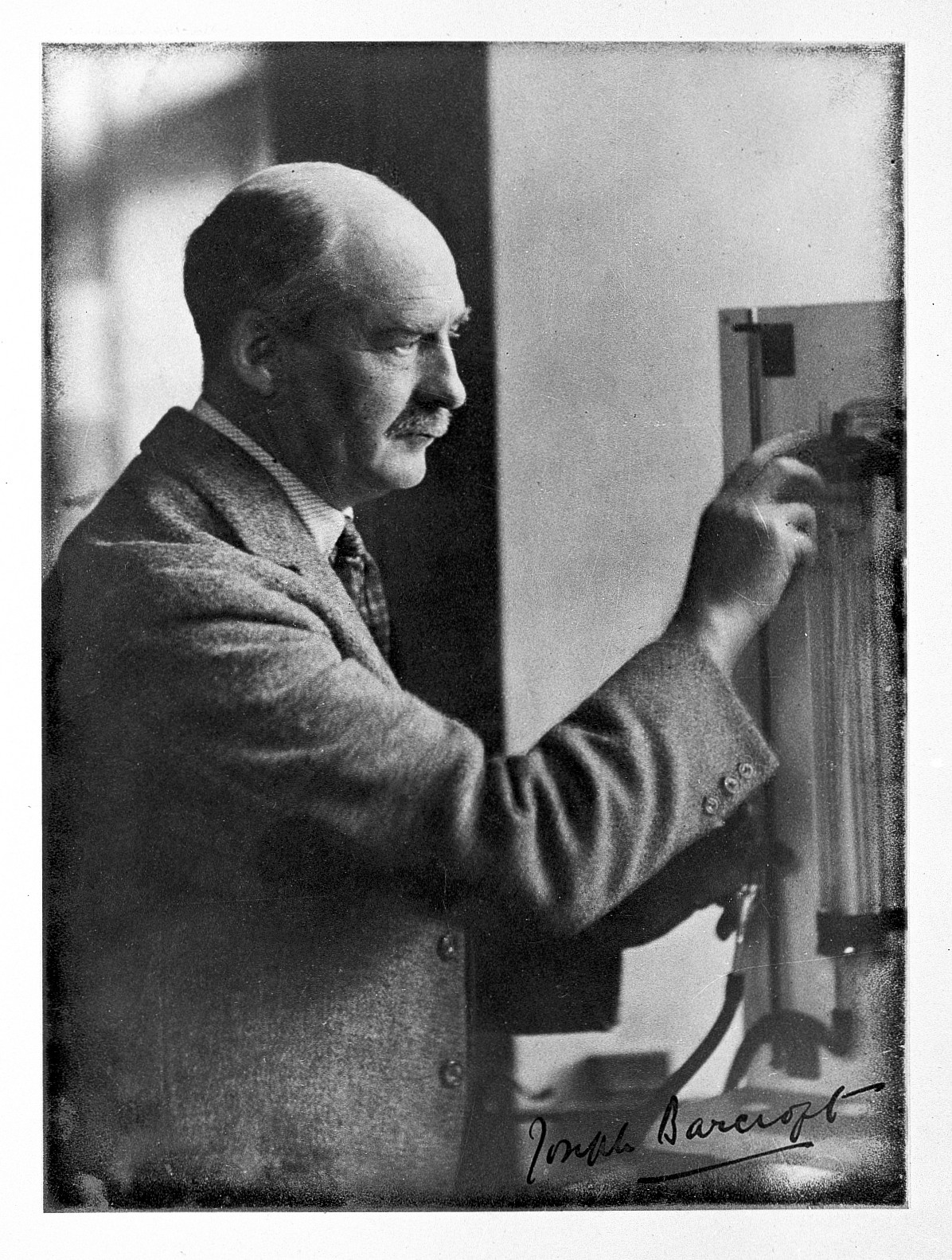 Sir Joseph Barcroft, from a photograph lent by Professor H. Barcroft. Iconographic Collections Keywords: Joseph Barcroft